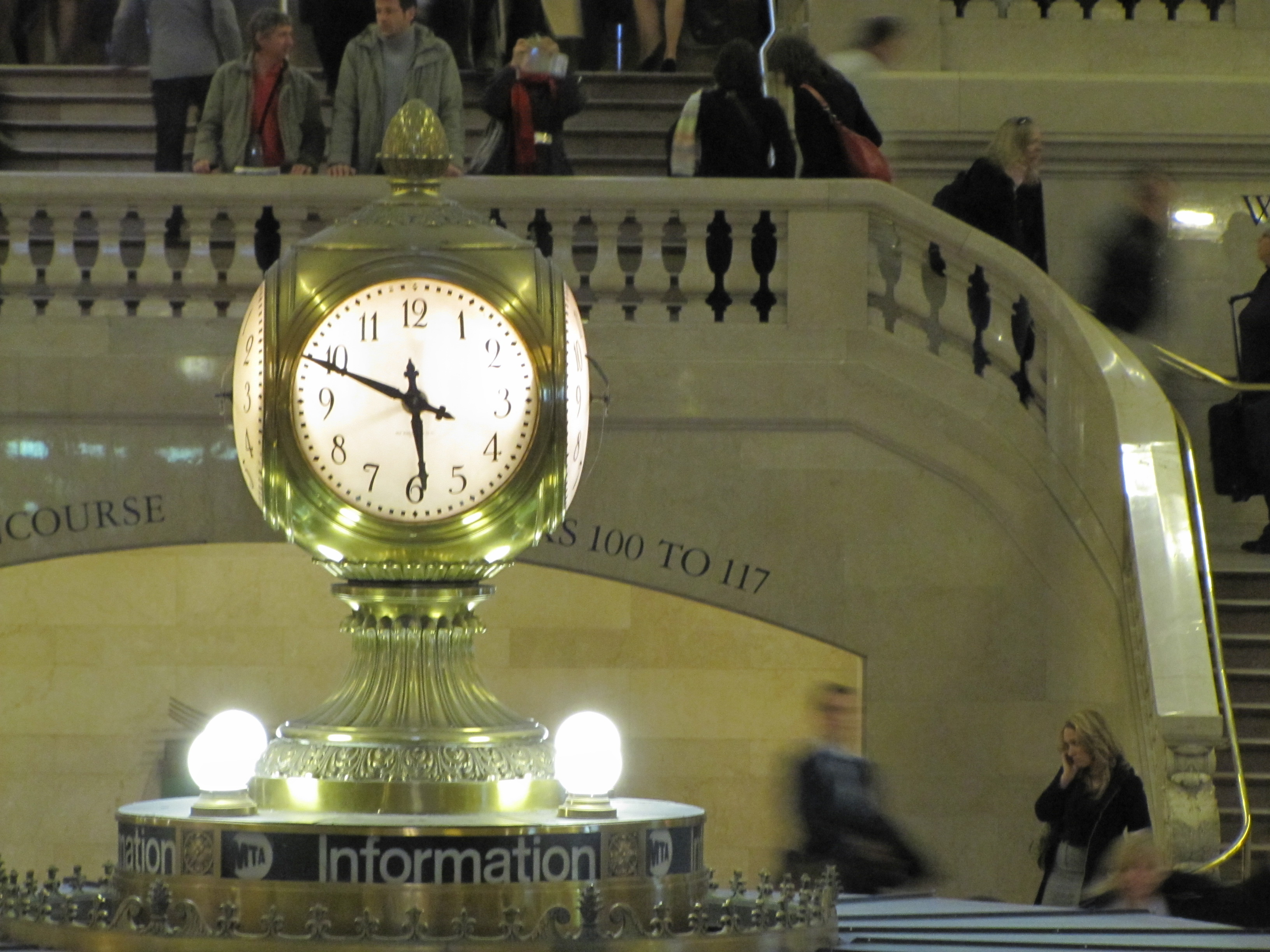 Reloj - Grand Central Station - NYC